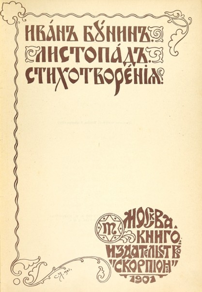 Cover of the collection of poems "Listopad" ("Falling leaves") by Ivan Bunin, Scorpion Publishing House, Russia, 1901